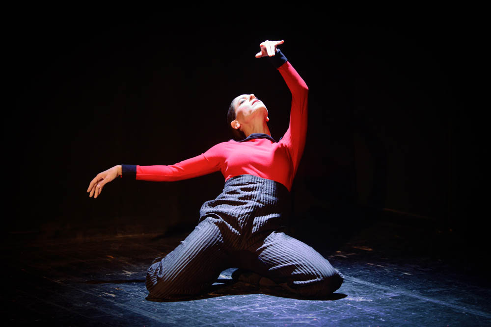 Israeli Actress and Mime Ruti Tamir